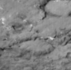 Detailed image of Comet Tempel 1 six minutes before it ran over NASA's Deep Impact probe at 10:52 p.m. Pacific time, July 3 (1:52 a.m. Eastern time, July 4). The picture was taken by the probe's impactor targeting sensor.